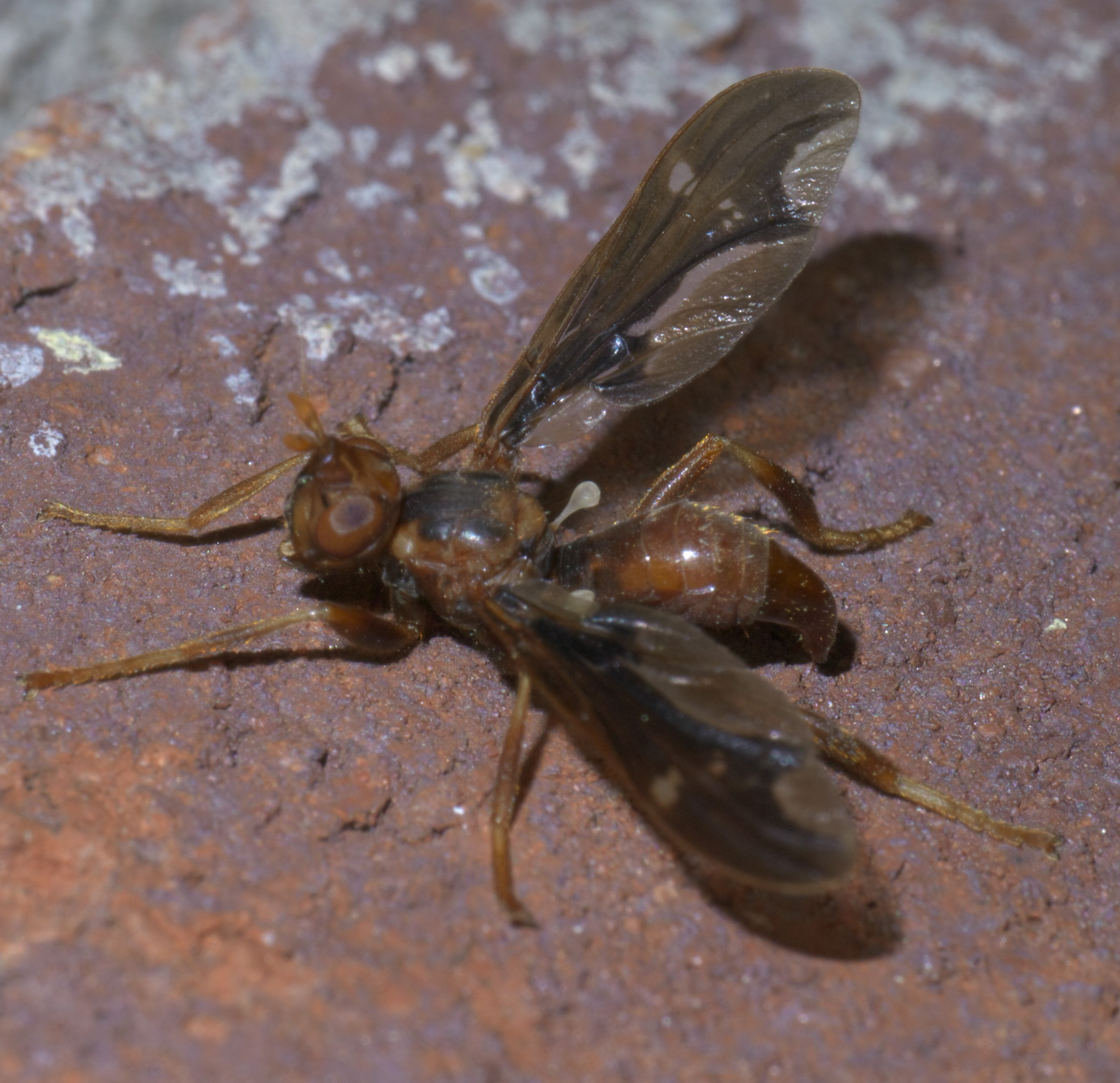 Pyrgota undata, Waved Light Fly, ID Confidence: 87